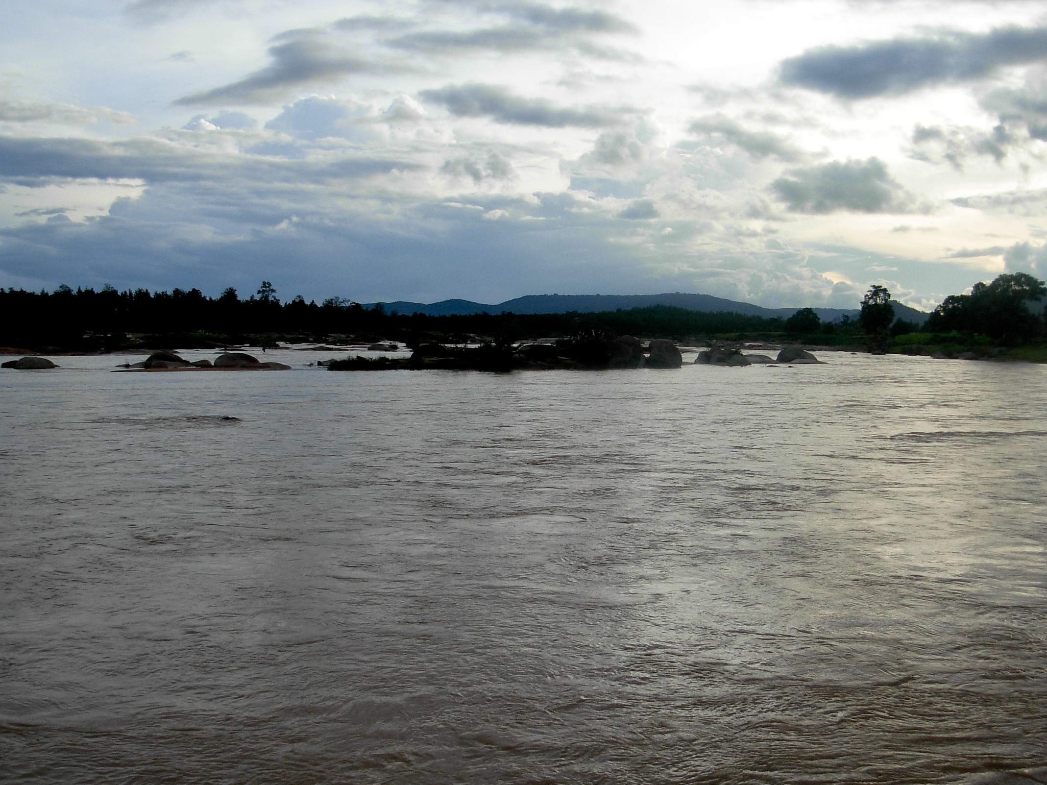 Shankh River